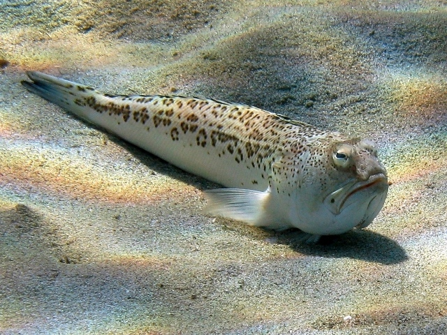 Trachinus radiatus photographed near Kato Koufonissi (Greece). Photo by Roberto Pillon.